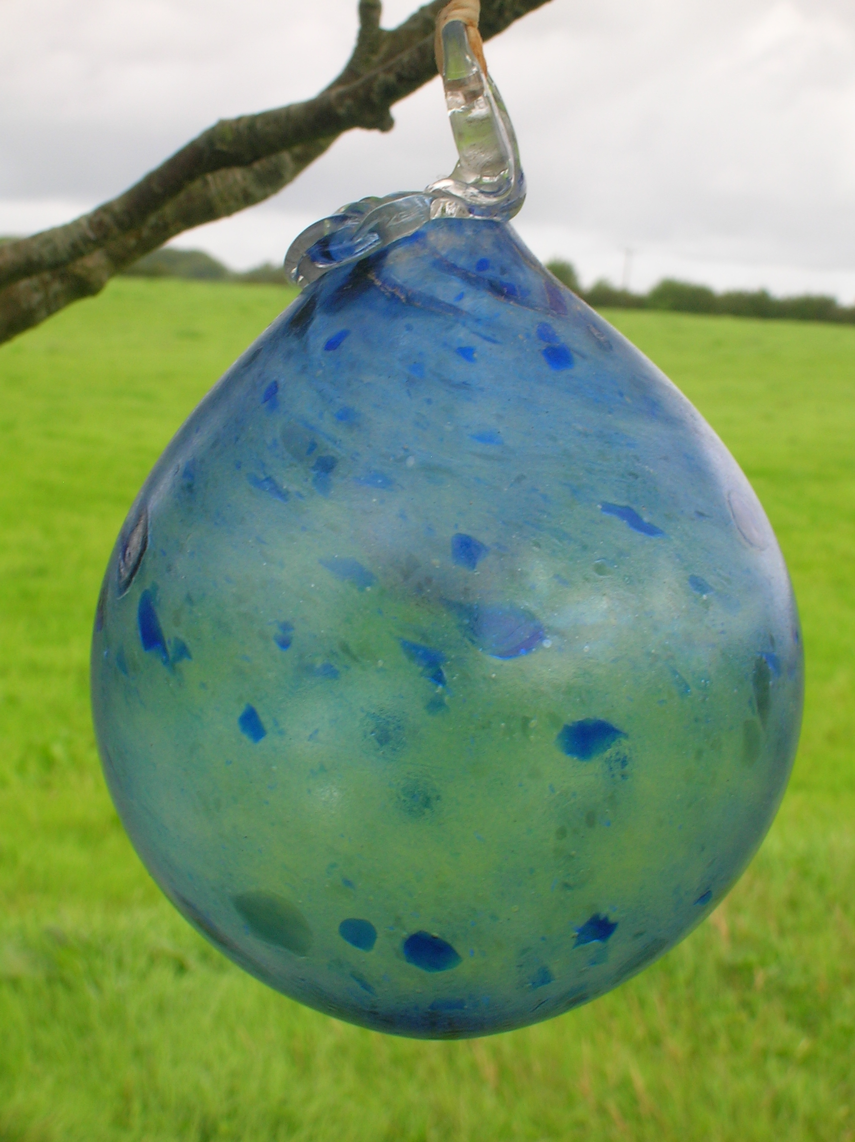 A witch ball on a Rowan tree in Lambroughton, Ayrshire, Scotland. A Witchball - supposed to keep witches away from houses, etc. One legend is that they see their distorted face reflected in the glass and are scared away. --Rosser 11:22, 17 August 2007 (UTC)